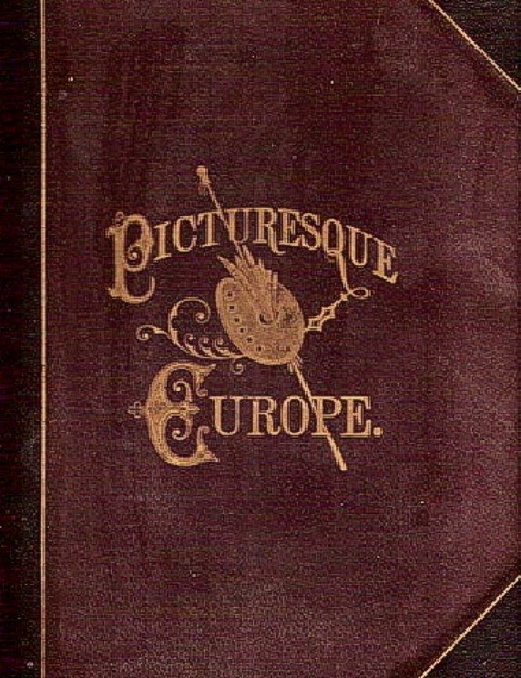 Cover of "Picturesque Europe", a five-volume reprint by Cassell, Petter, Galpin, & Co. of London of D. Appleton & Co.'s 1875 Picturesque Europe